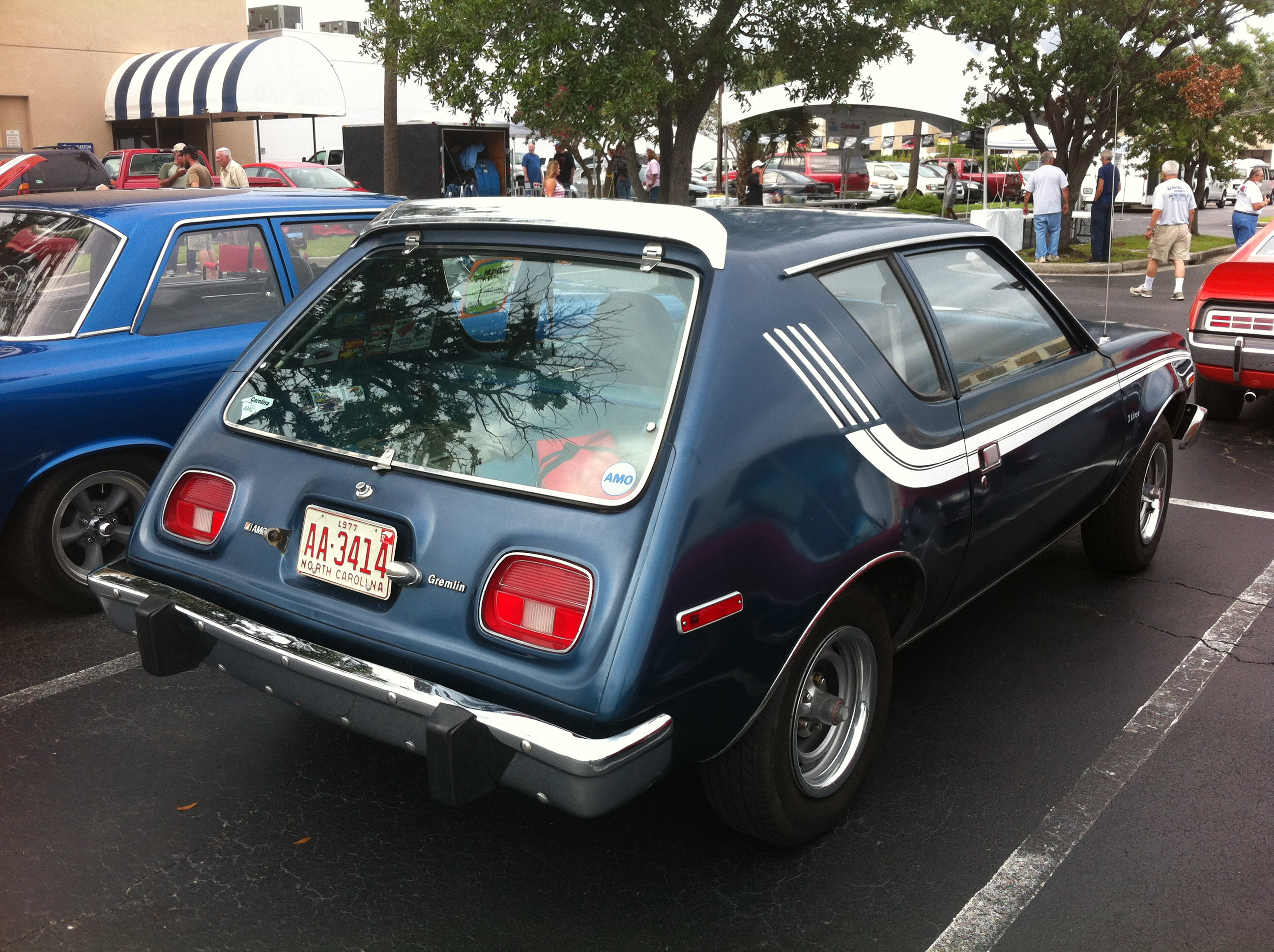 1977 AMC Gremlin 2 Liter Custom. A sub-compact automobile manufactured by American Motors Corporation (AMC). This car has the optional carbureted four-cylinder engine (standard was AMC's 232 cu in (3.8 L) straight six that was only available with the "Custom" package. This engine is a version of the Volkswagen/Audi 2.0 L (120 cu in) inline-four that was also used in the Porsche 924 with fuel-injection. Photographed at the 2014 American Motors Owners (AMO) convention that was held in North Charleston, North Carolina, USA.